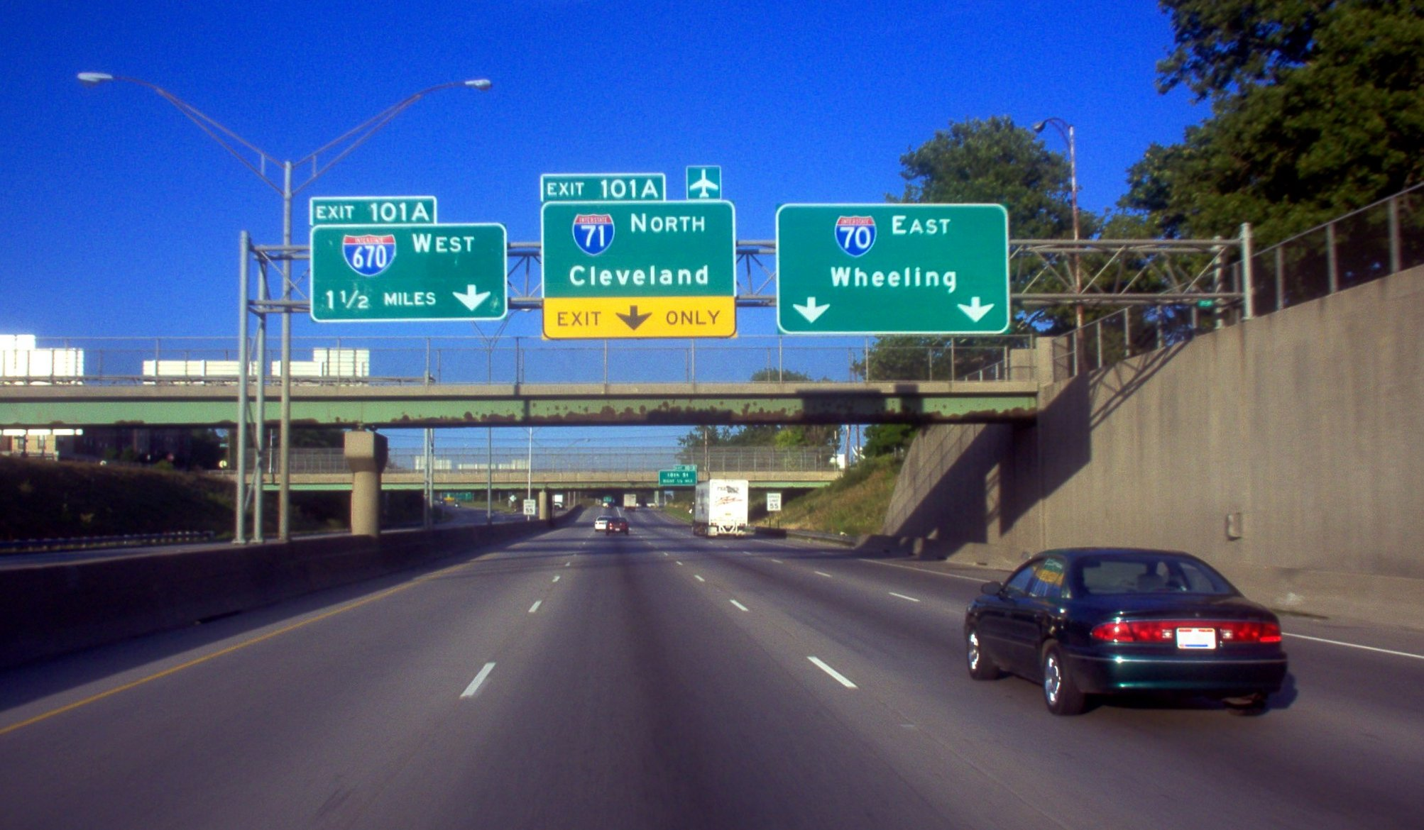 Taken with my camera on July 22, 2007 while traveling through Columbus. Blurred car license plate for privacy.